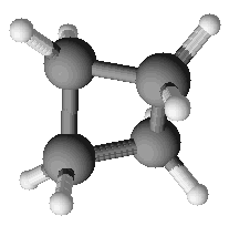 Cyclobutane 3D